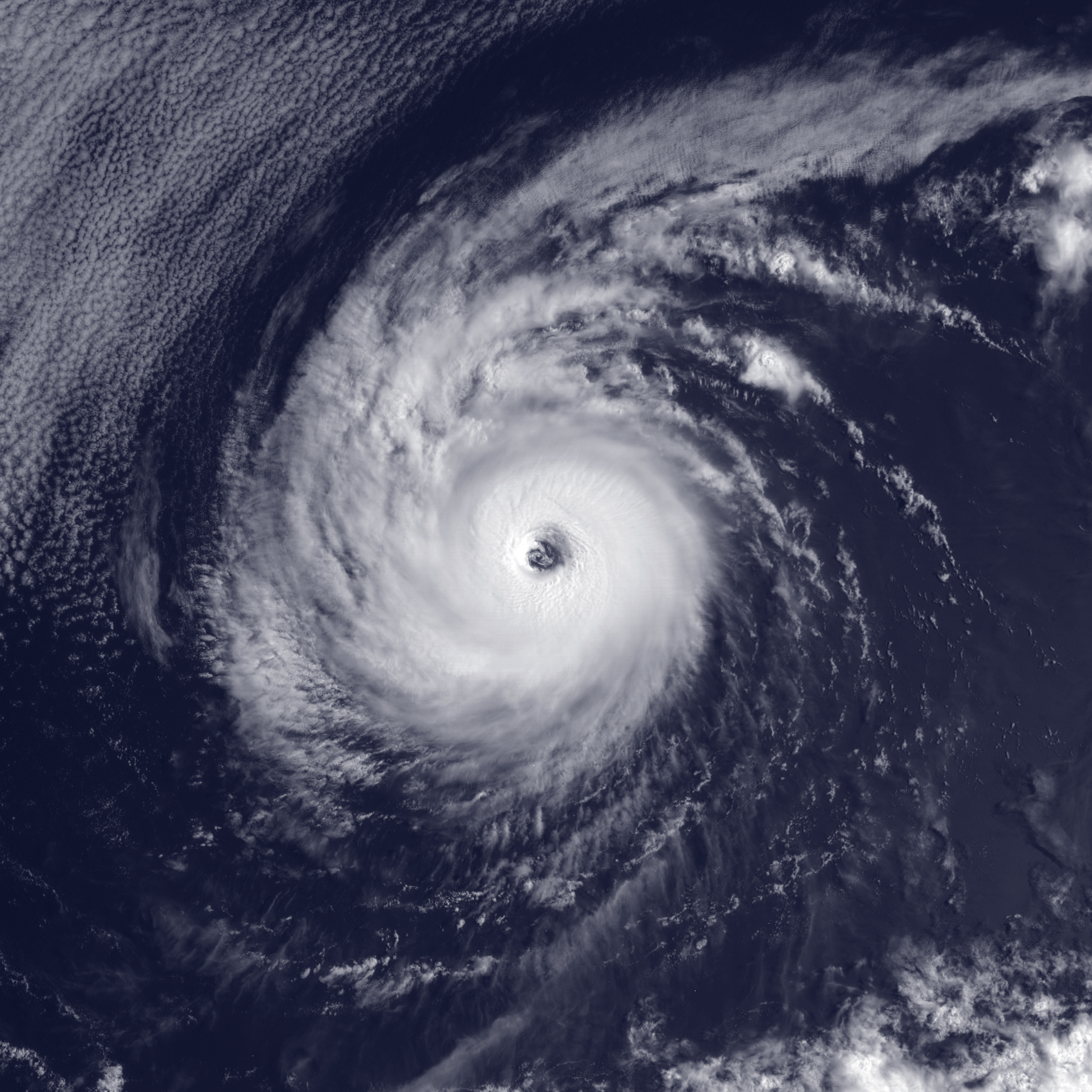 Hurricane Dora as a Category 4 hurricane on August 10, 1999.